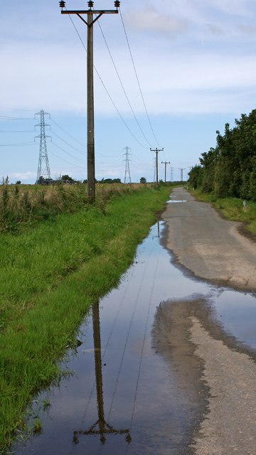 The Trans-Pennine Trail at Maghull The Trans-Pennine Trail crosses the country from Southport to Hornsea. This part follows the old Cheshire Lines railway that ran from Liverpool to Southport, closed in 1952.